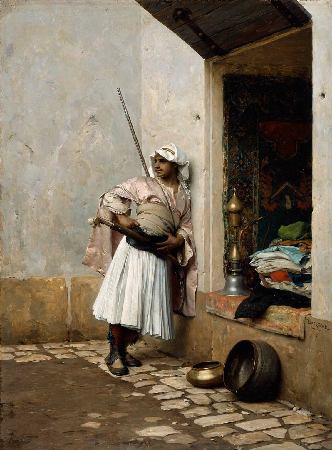 An Albanian sentinel of the Ottoman Empire in Cairo, Egypt